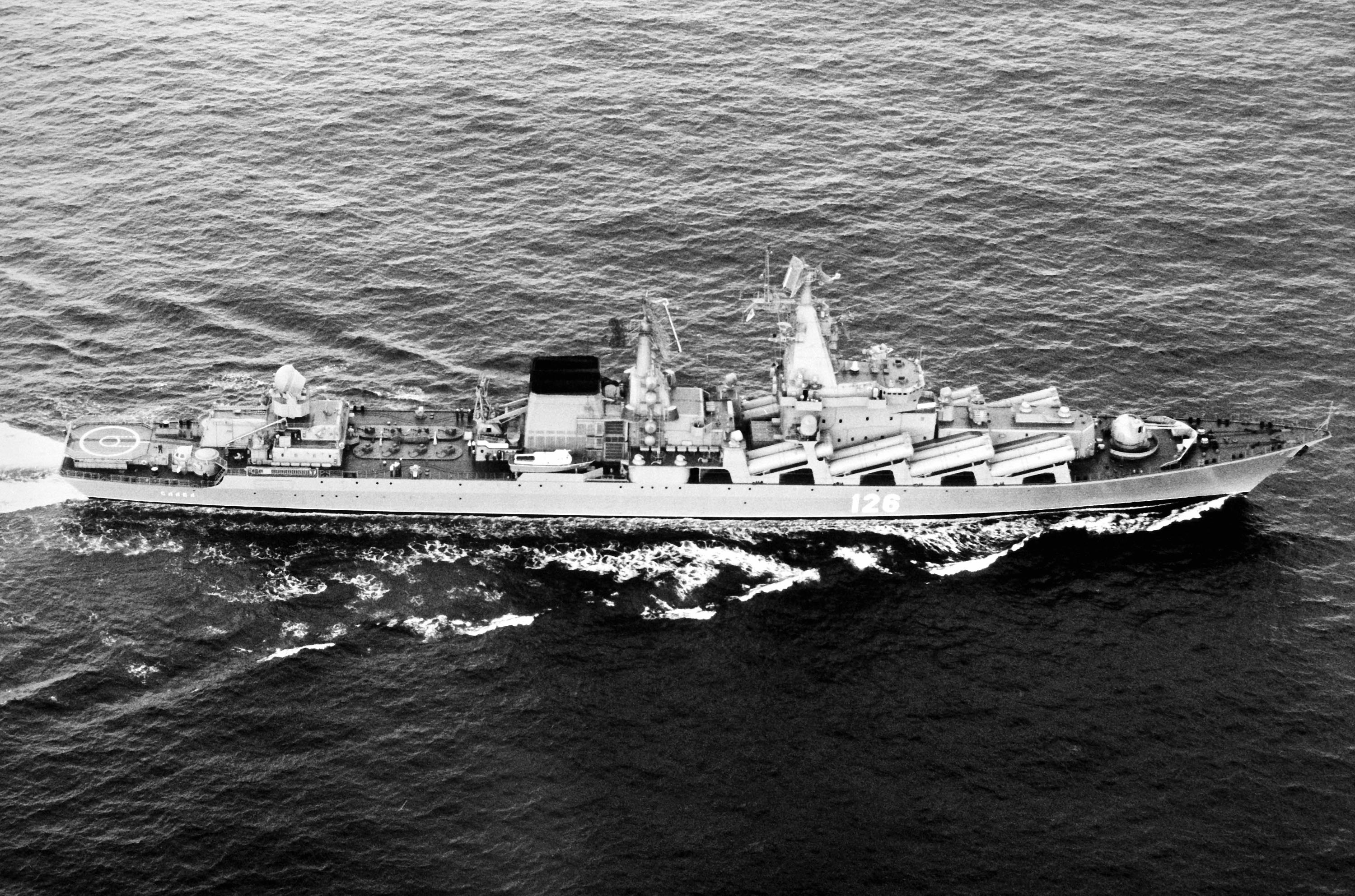 Aerial starboard beam view of the Soviet cruiser SLAVA, first of its class, underway.